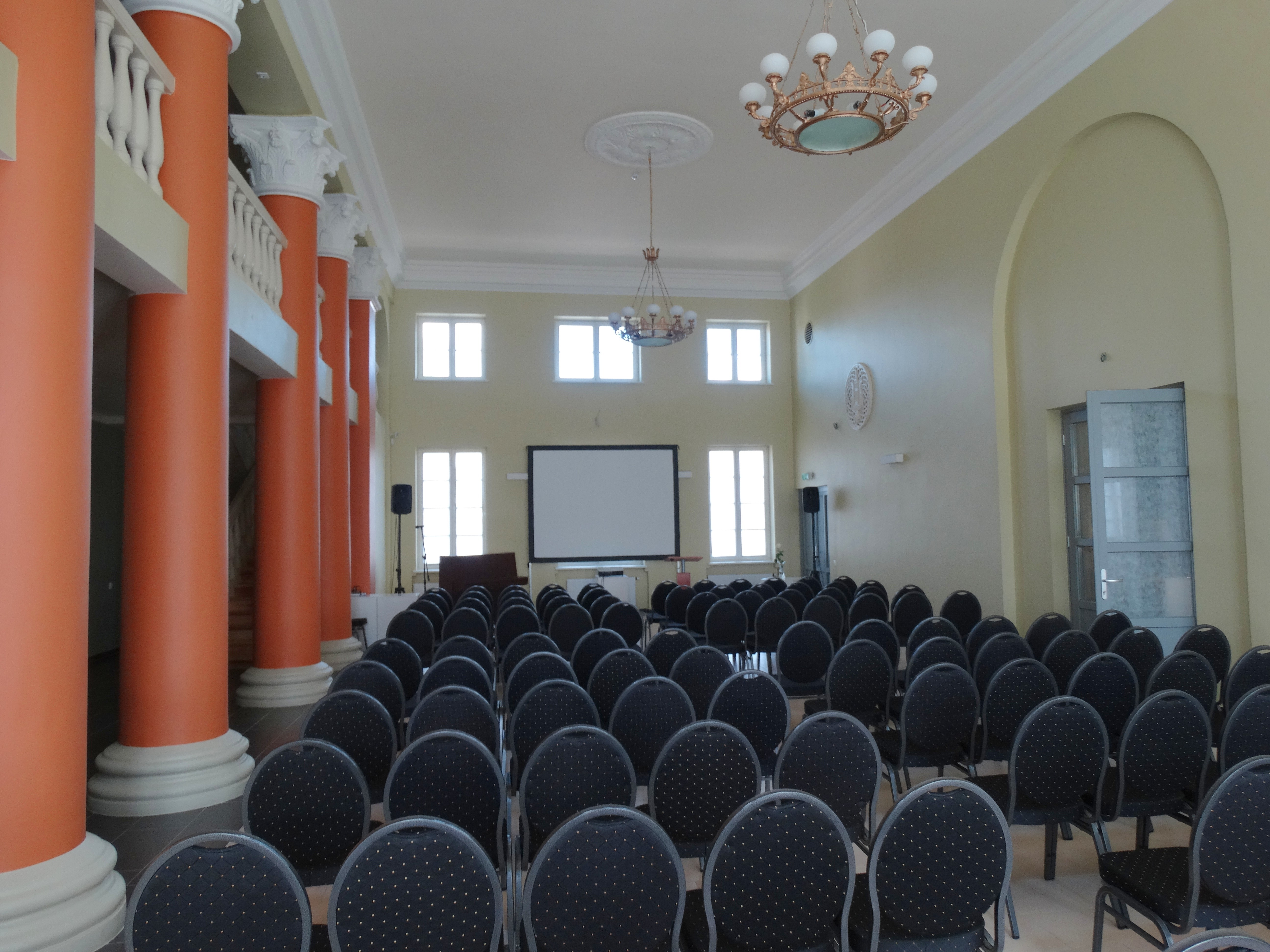 Ukmergė museum (former cinema Draugystė), Lithuania